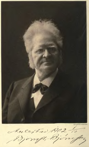 The Norwegian author Bjørnstjerne Bjørnson. Photography by Karl Anderson.